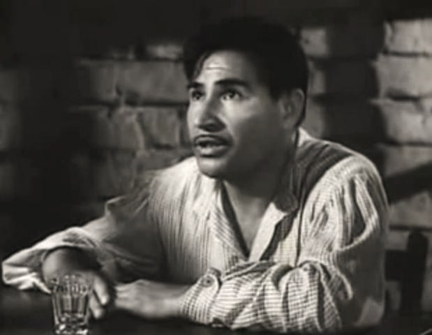 Natividad Vacío in The Hitch Hiker - cropped screenshot